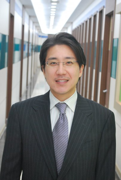 Picture of David J. Kim